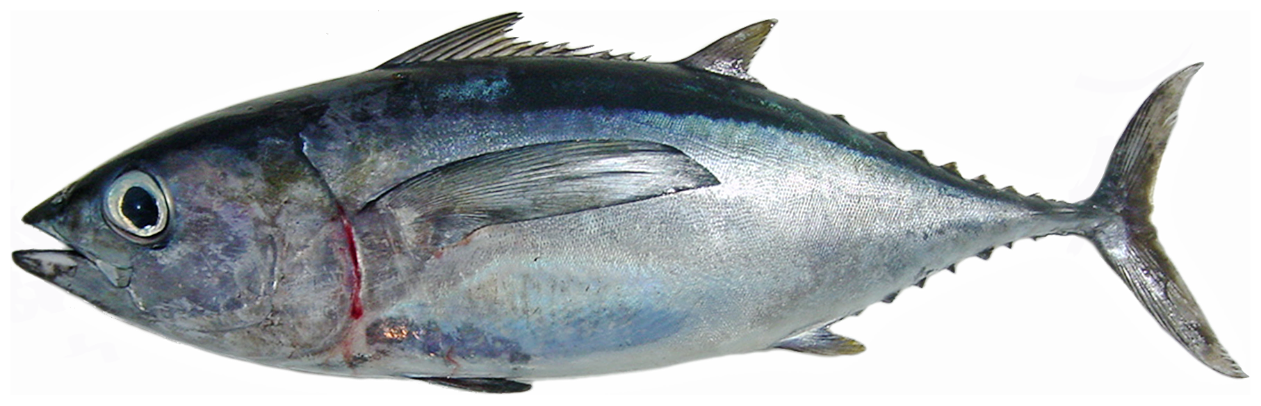 Thunnus atlanticus (Lesson 1831)—blackfin tuna, 516 mm FL. Photo by W Toller.